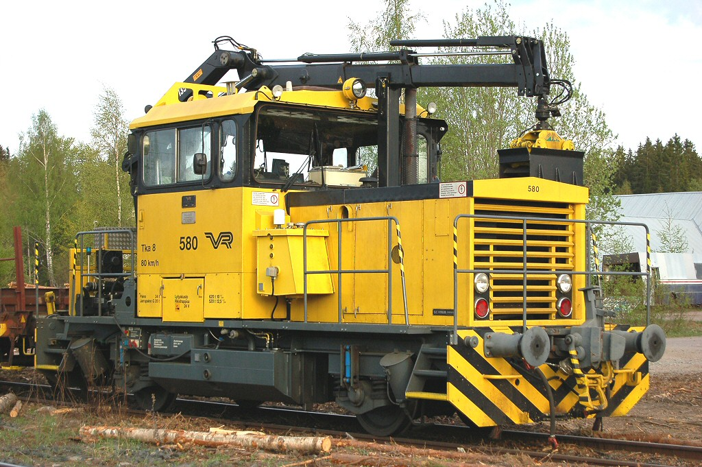 A Finnish class Tka8 track-lorry number 580 parked at Humppila station.